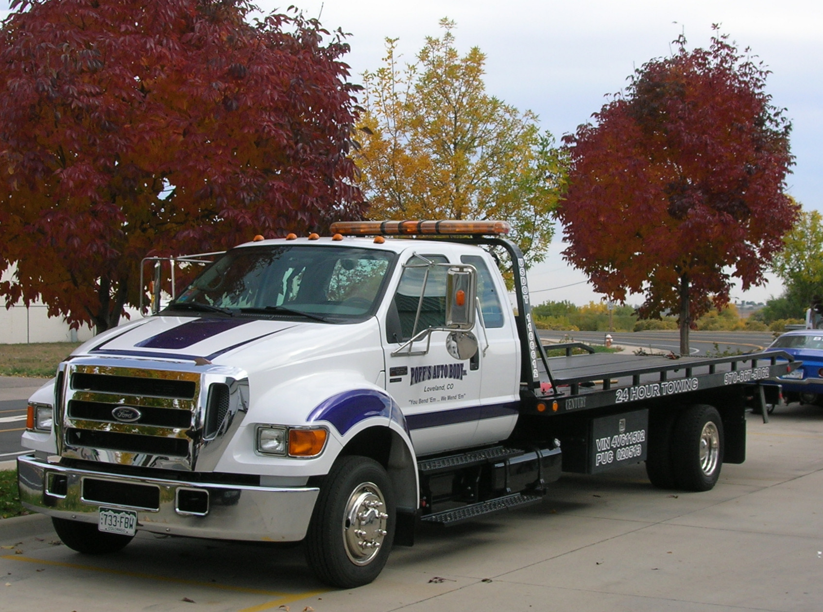 Front 3/4 view of a Ford F-650 flatbed tow truck. Description from Flickr:Ford tow truck, Loveland, Colorado / 2007